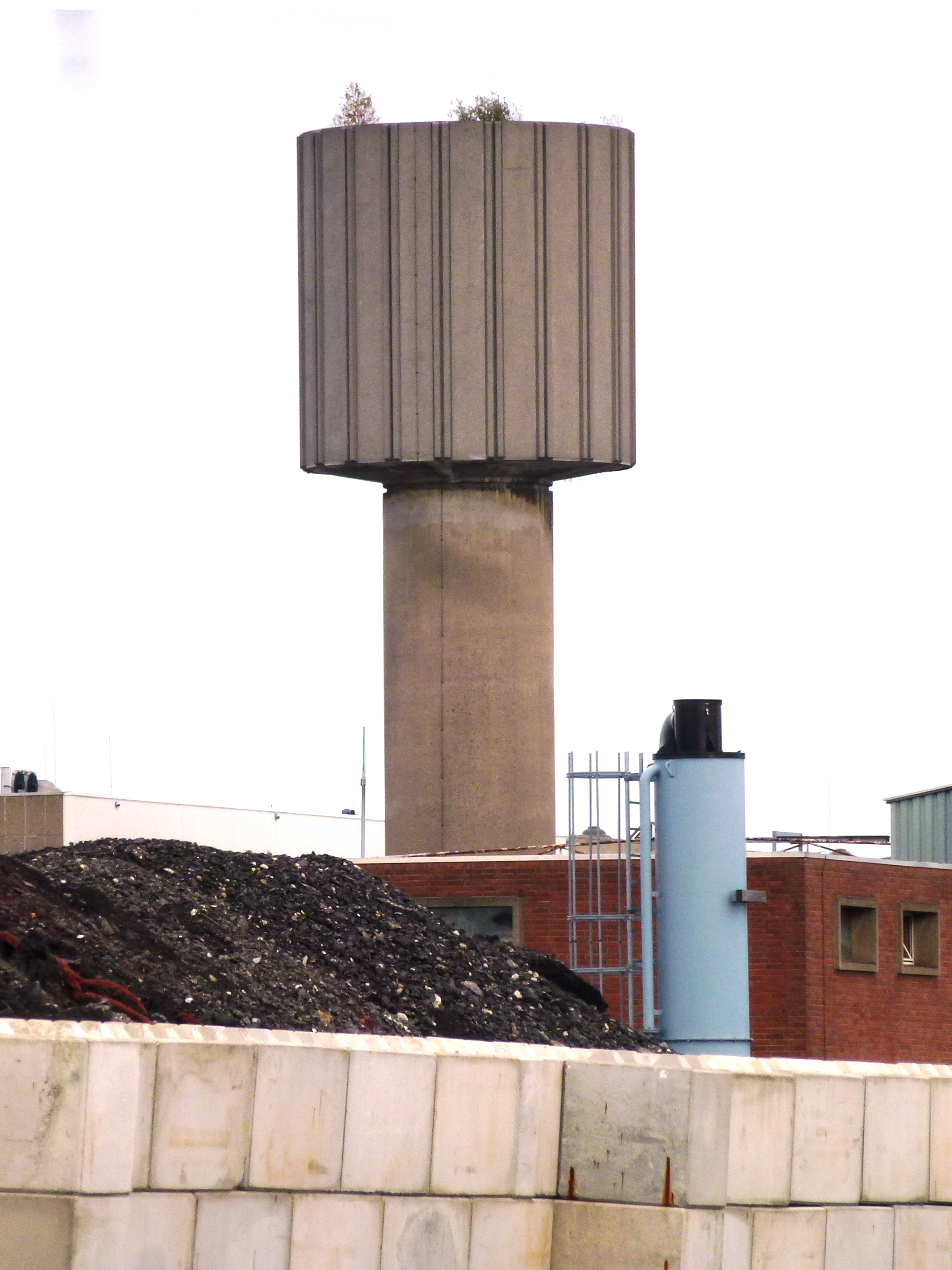 Nijmegen, Sappi papierfabriek, Ambachtsweg, de watertoren